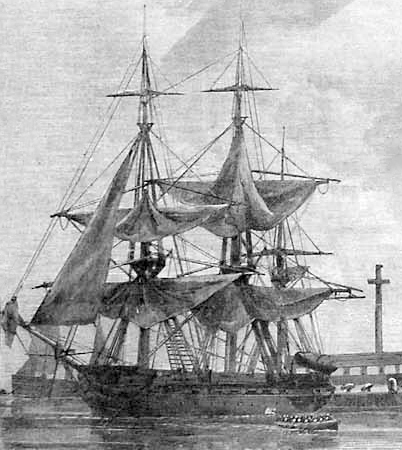 A sketch of the United States Navy sloop-of-war USS Vandalia. Cropped from the engraving of "The Navy-Yard at Brooklyn, New York, June 1861", published July 20, 1861, in Harper's Weekly. Later part of Commodore Matthew C. Perry's Opening of Japan.